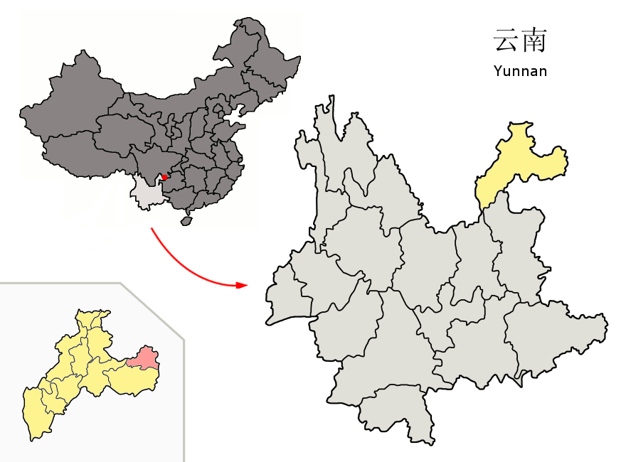 Location of Weixin County (pink) and Zhaotong Prefecture (yellow) within Yunnan province of China Map drawn in september 2007 using various sources, mainly : Yunnan province administrative regions GIS data: 1:1M, County level, 1990 Yunnan Counties map from Zhaotong Prefecture administrative map from .au